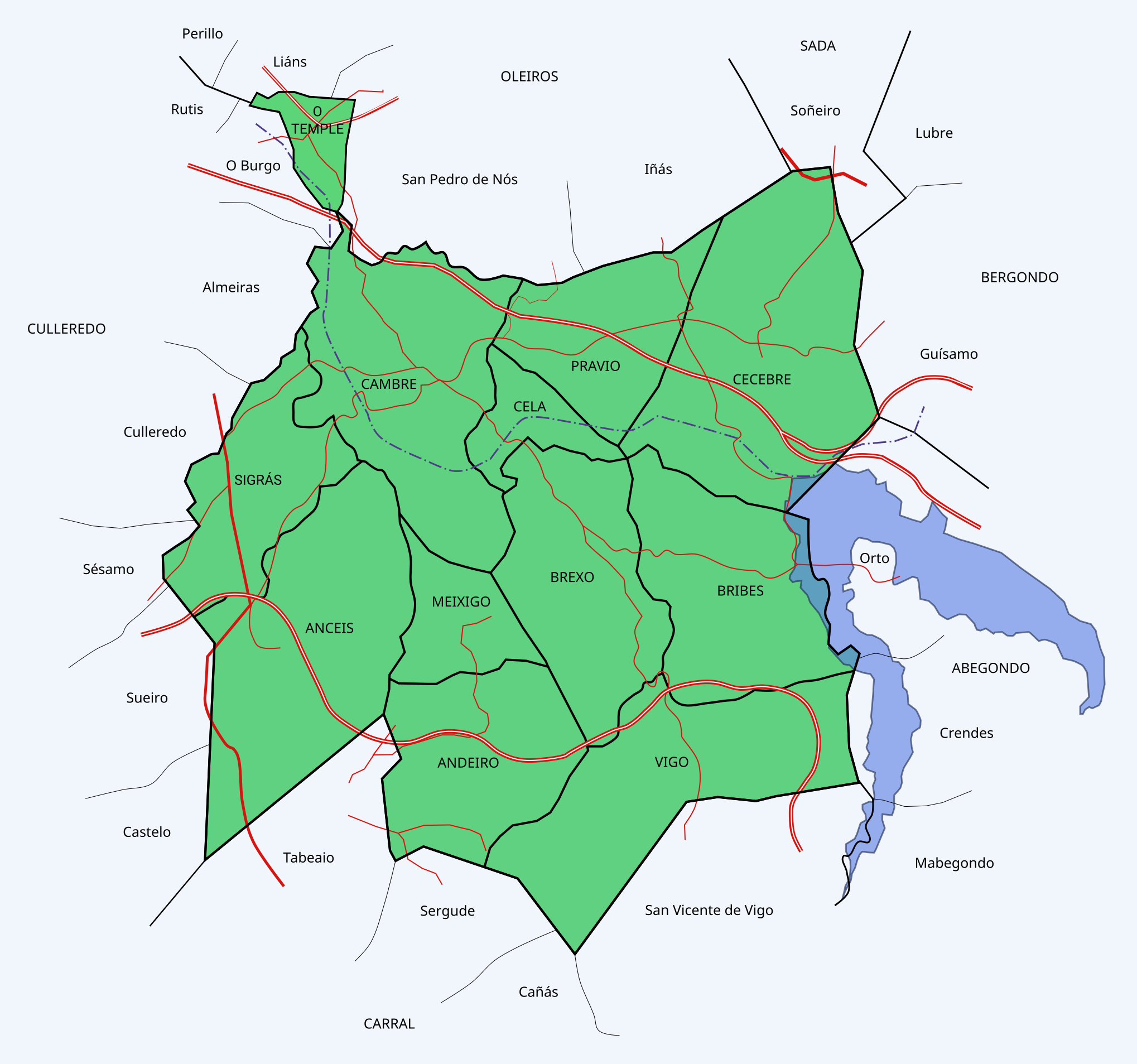 Map of parishes of the municipality of Cambre (Galicia, Spain)